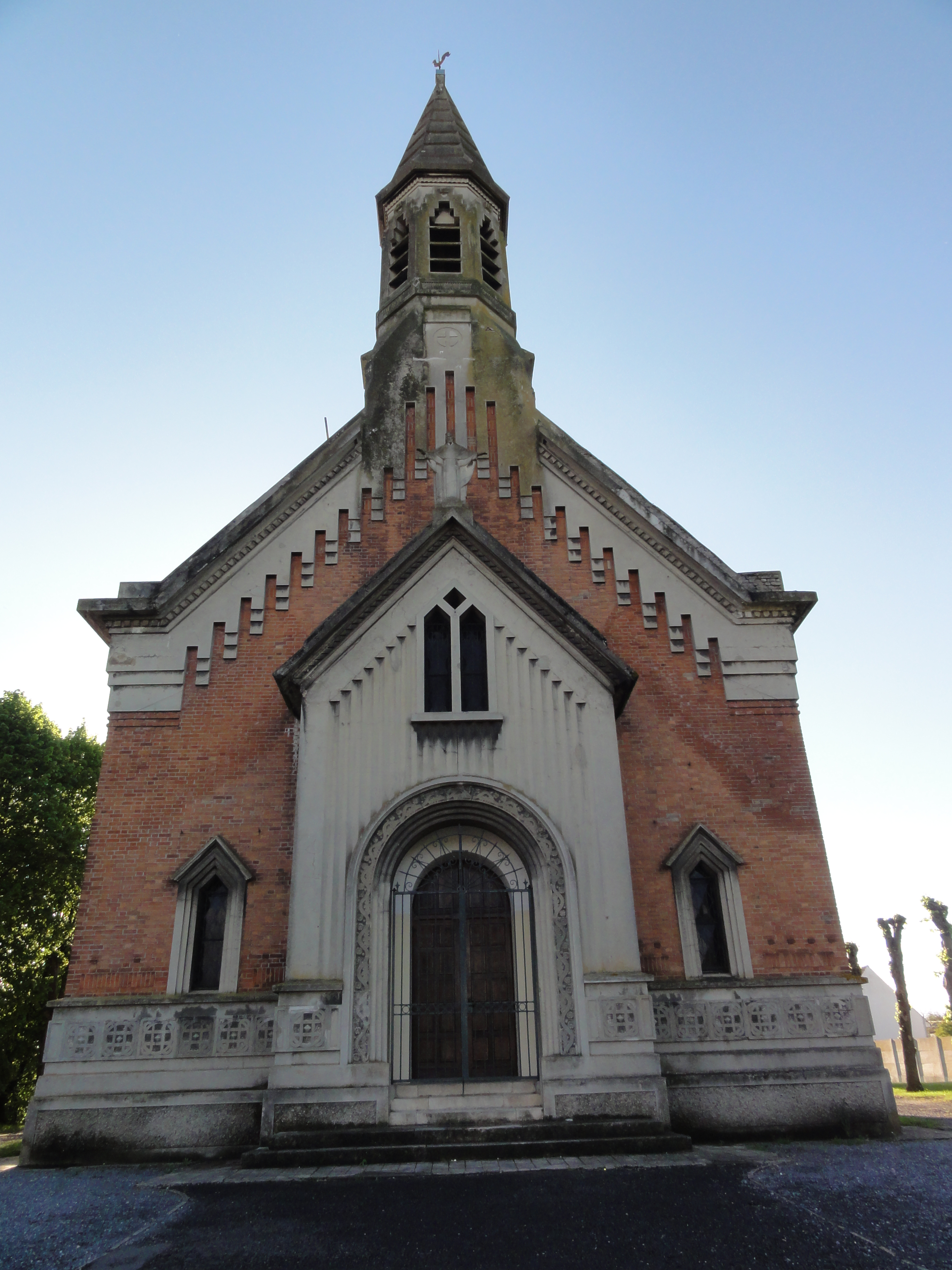 Beautor (Aisne) église